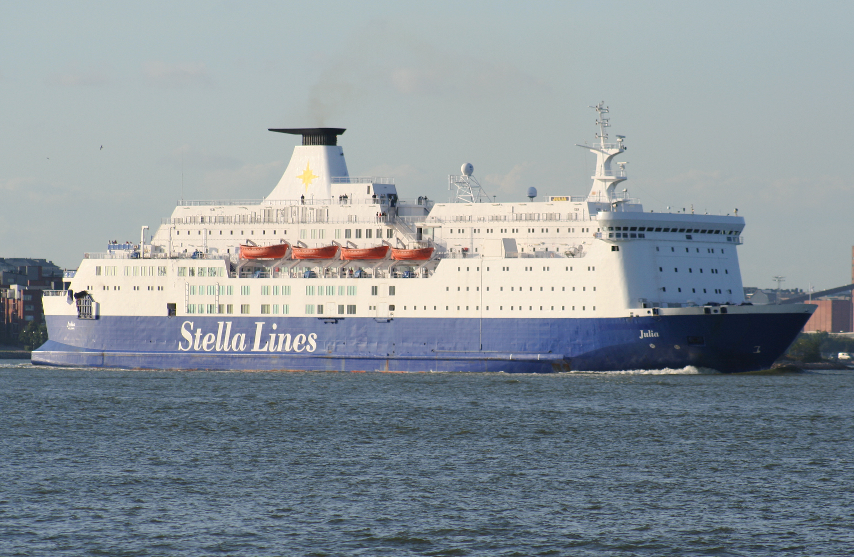 Stella Lines' cruiseferry MS Julia on Kruunuvuorenselkä in Helsinki (Finland) in the evening, having just departed Helsinki South Harbour for St. Peterburg. IMO Number: 8020642 MMSI Number: 230607000 Callsign: OJNQ Length: 153 m Beam: 24 m